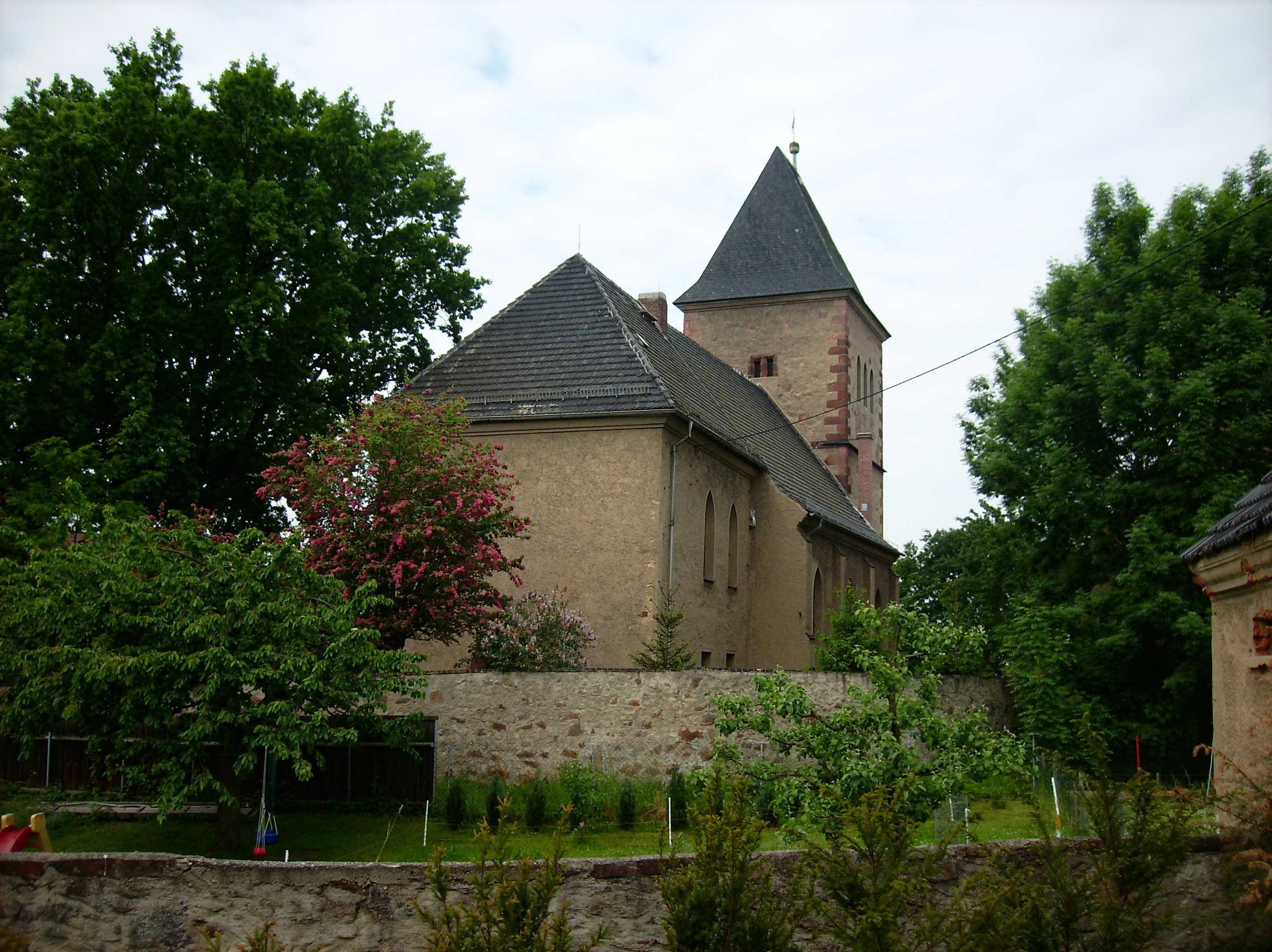 Church of the village of Lohma an der Leina (Langenleuba-Niederhain, district of Altenburger Land, Thuringia)